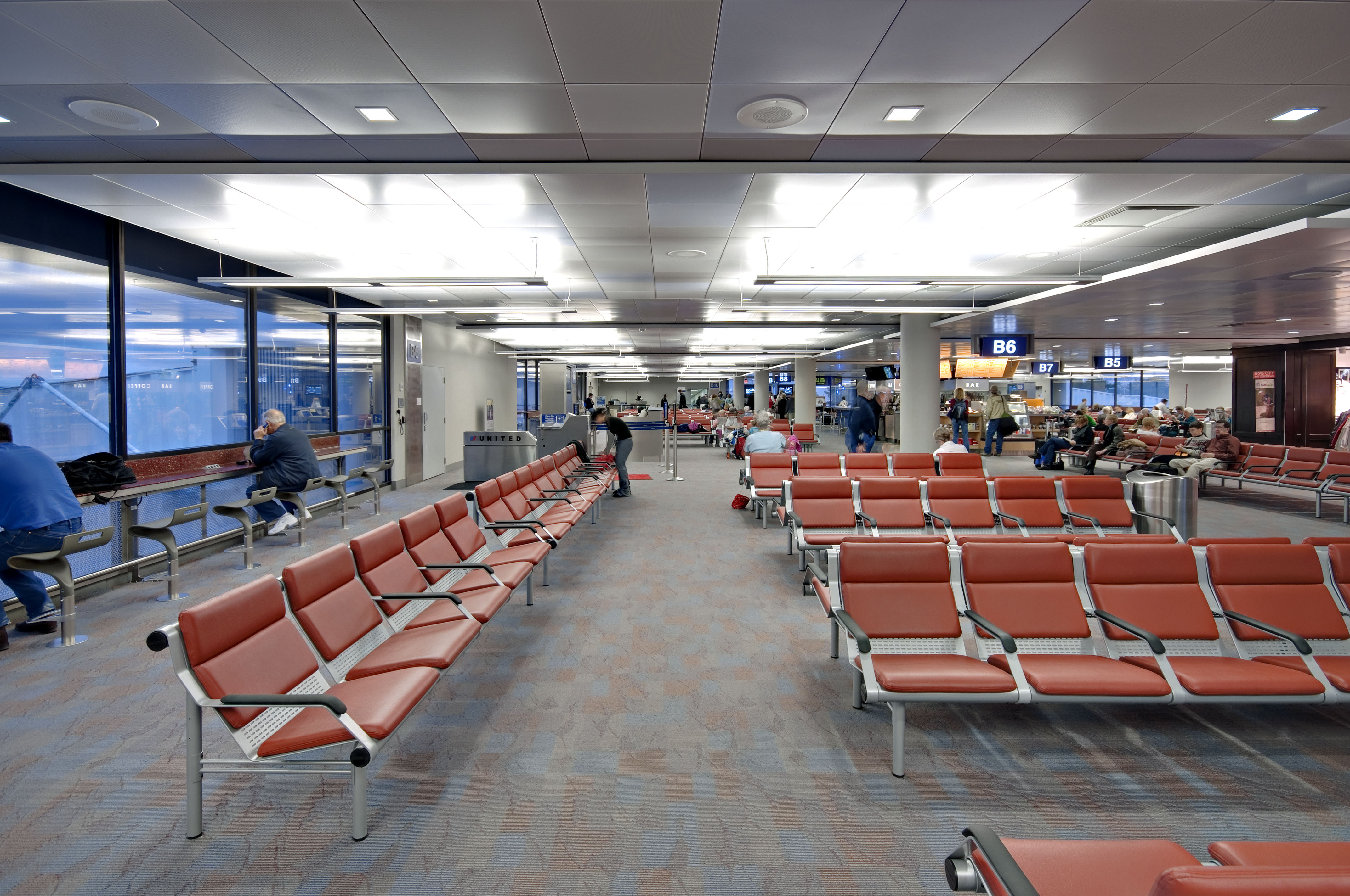 TIA Departure Gate B6